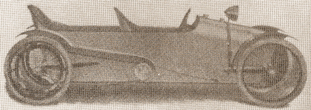 1914 Keller Cyclecar